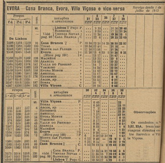 Timetable of 1st July 1913 of the Linha de Évora (Évora Railway), including the part from Estremoz to Vila Viçosa, that at the time was part of the line. This image was published on the Guia Official dos Caminhos de Ferro de Portugal No. 168, of October 1913, and scanned by the Biblioteca Nacional de Portugal.